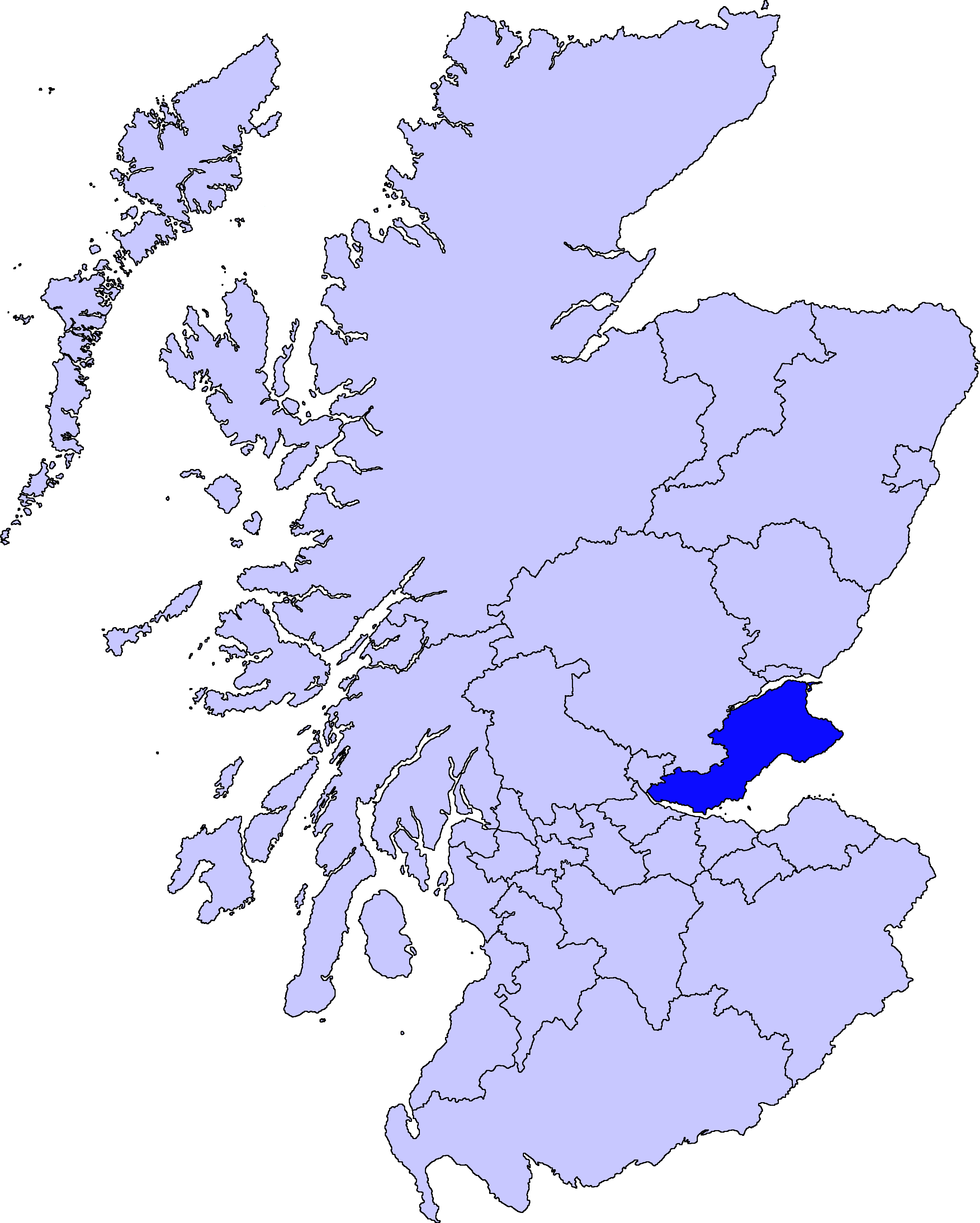 map of Fife